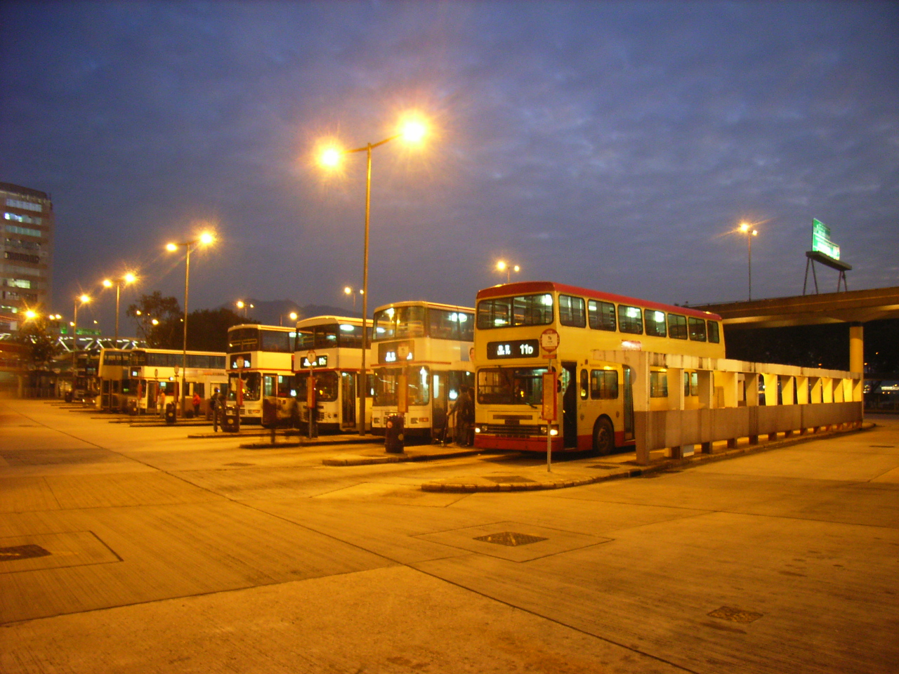 觀塘渡輪碼頭巴士總站, 是位於zh:觀塘渡輪碼頭的一處zh:九巴zh:巴士總站